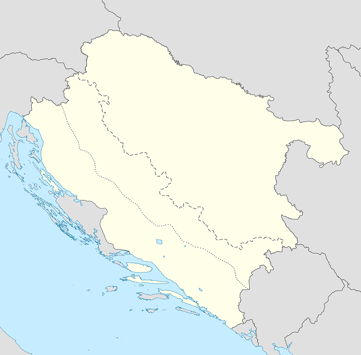 Locator map for the Independent State of Croatia in 1941